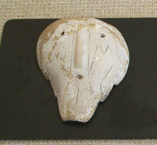 A Mississippian culture Buffalo style mask shell gorget found at the Nodena Site in Mississippi County, Arkansas and on display at the :en:Hampson Archeological Museum State Park |Hampson Archeological Museum State Park .